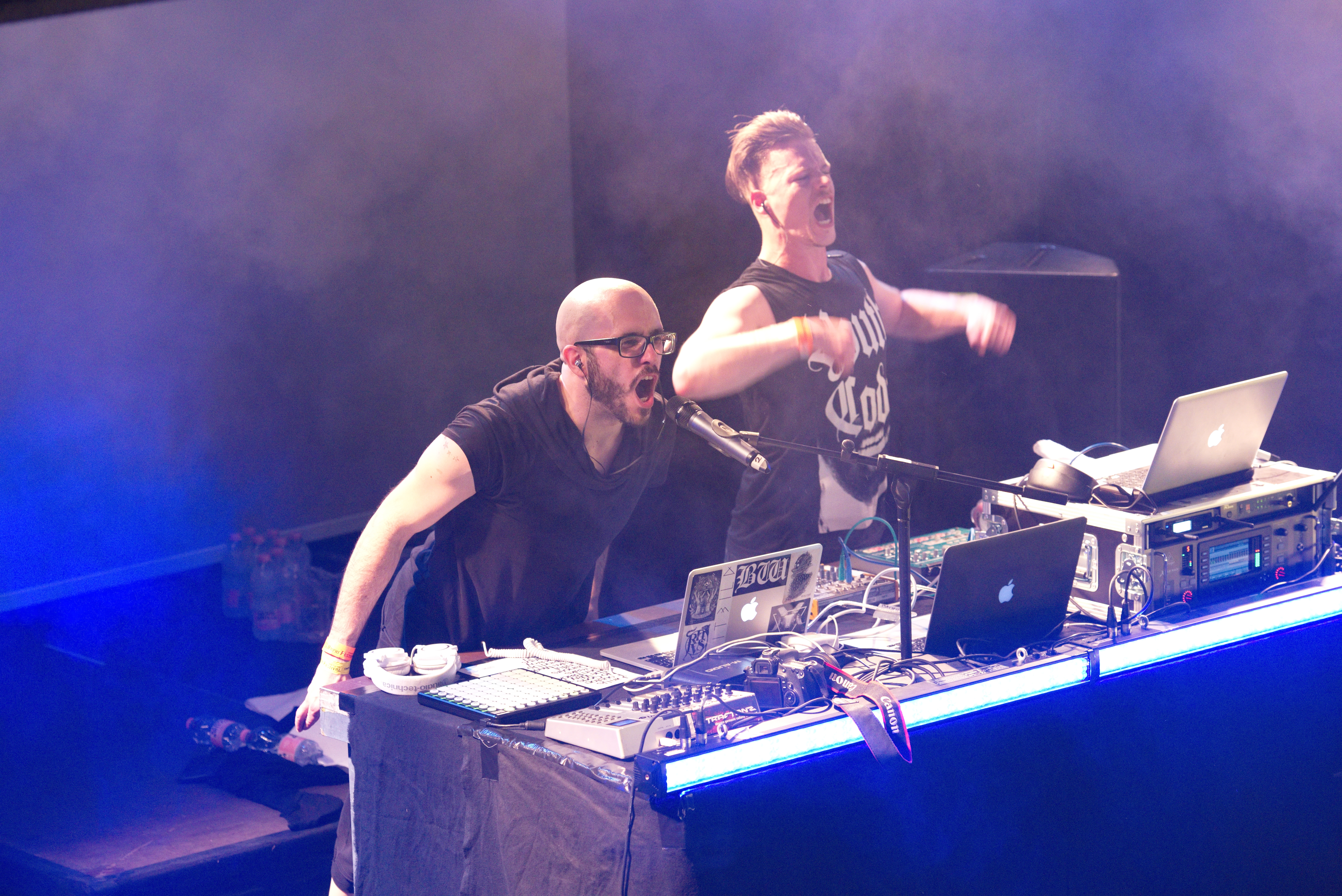 Faderhead, Amphi festival 2016